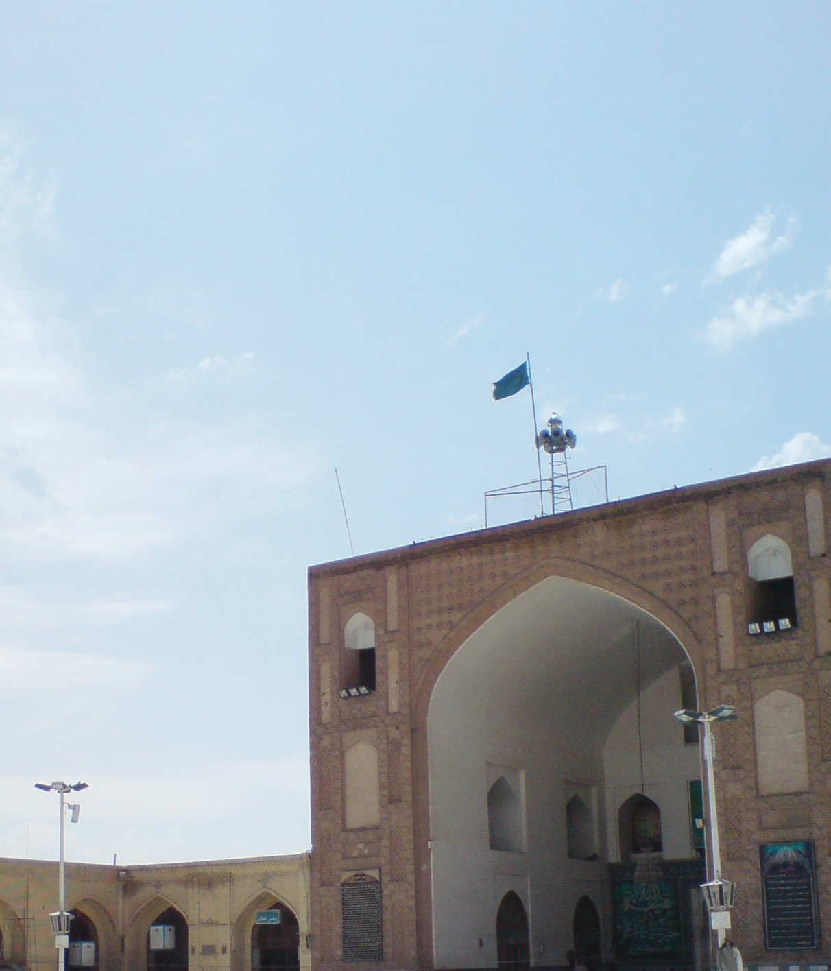 Main Ivan of Nishapur Grand Mosque